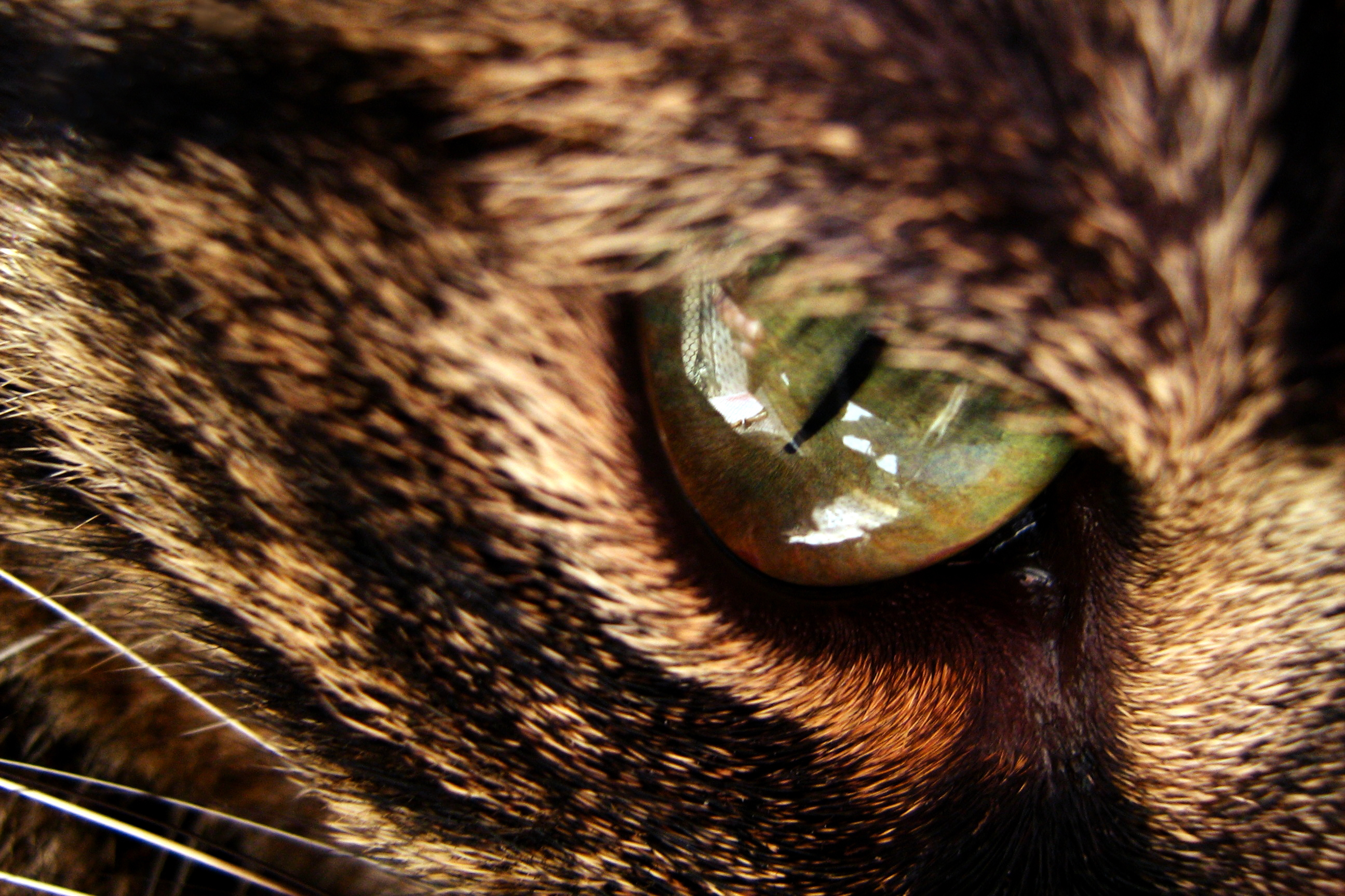 Cat's pupil